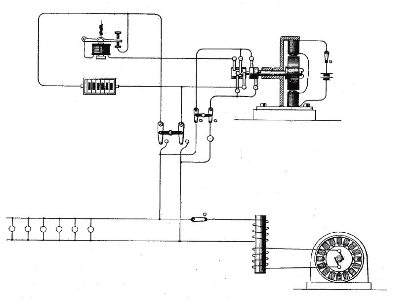 Westinghouse early AC power distribution system